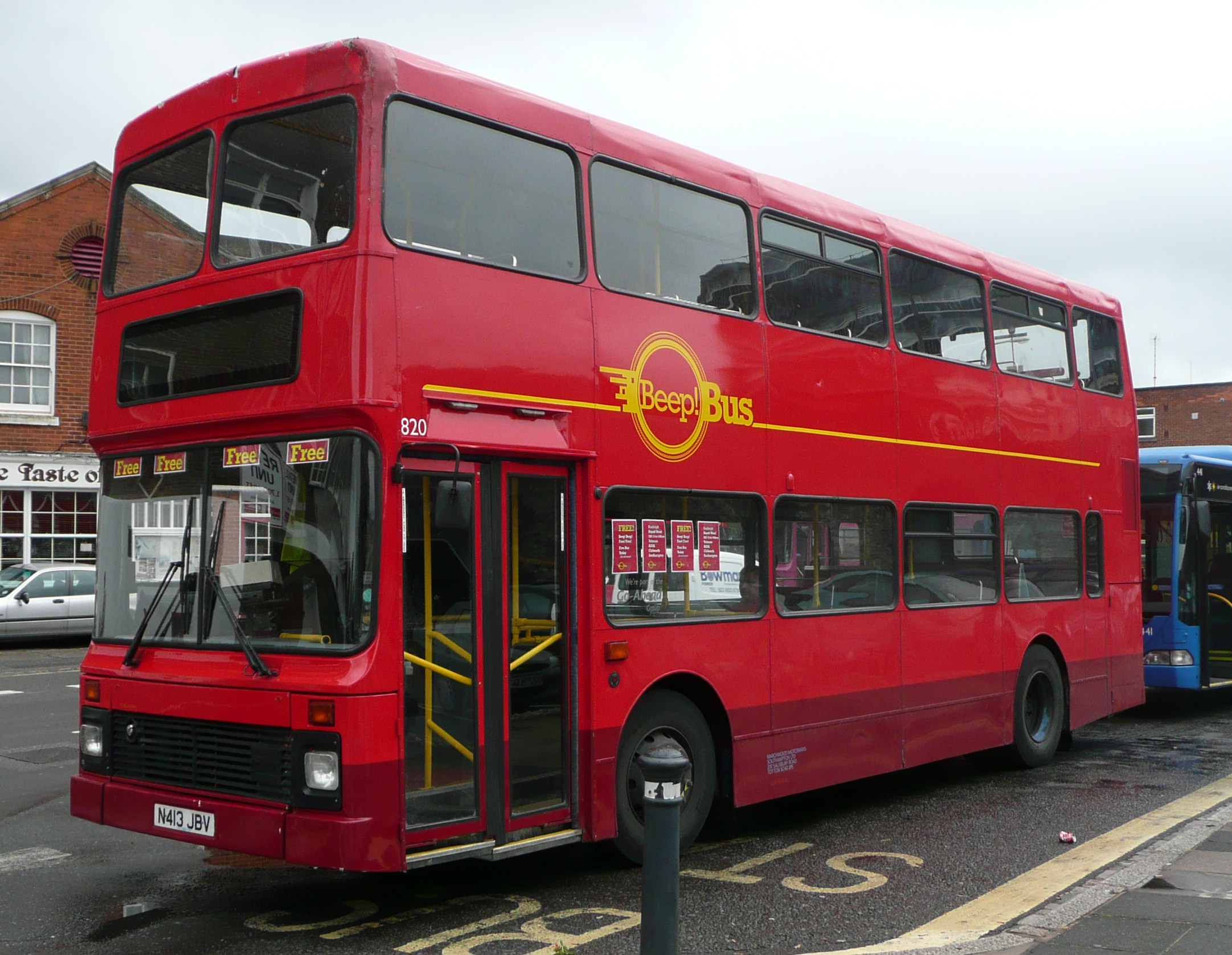 Bluestar's bus 820 (N413 JBV), a Volvo Olympian/Northern Counties Palatine in Southampton, England. It is in a disguise livery for "Beep Bus", to fool the public into thinking that it isn't the same company who are competing with Velvet's original route B, which serves some of the places Bluestar withdrew from in the first place.